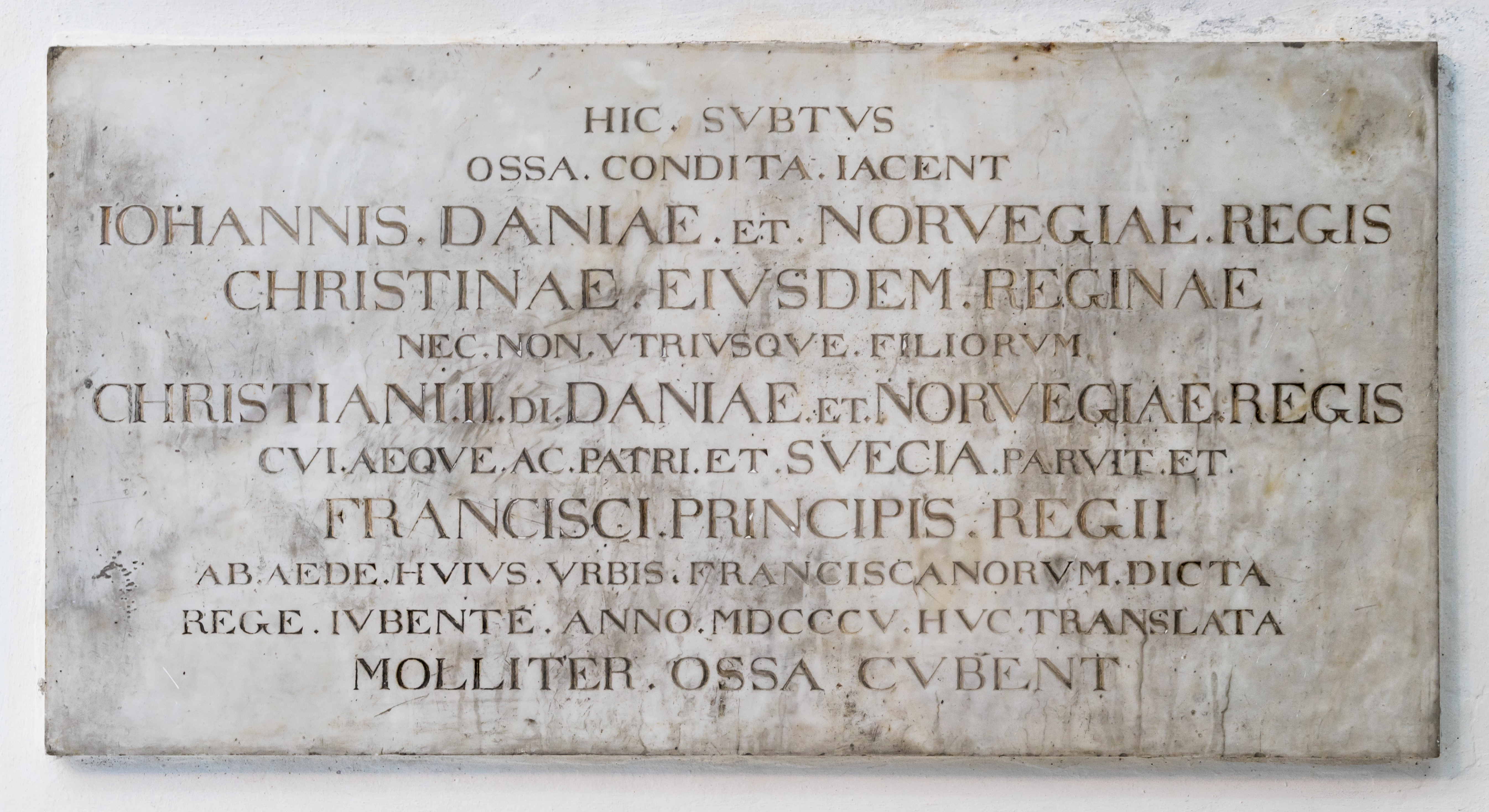 Tombstone of John, King of Denmark, of his wife spouse Christina of Saxony, and of their sons king Christian II of Denmark and prince Francis of Denmark in saint-Knud cathedral of Odense, Denmark.